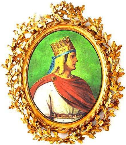 King of Kings Tigranes the Great 19th century painting.